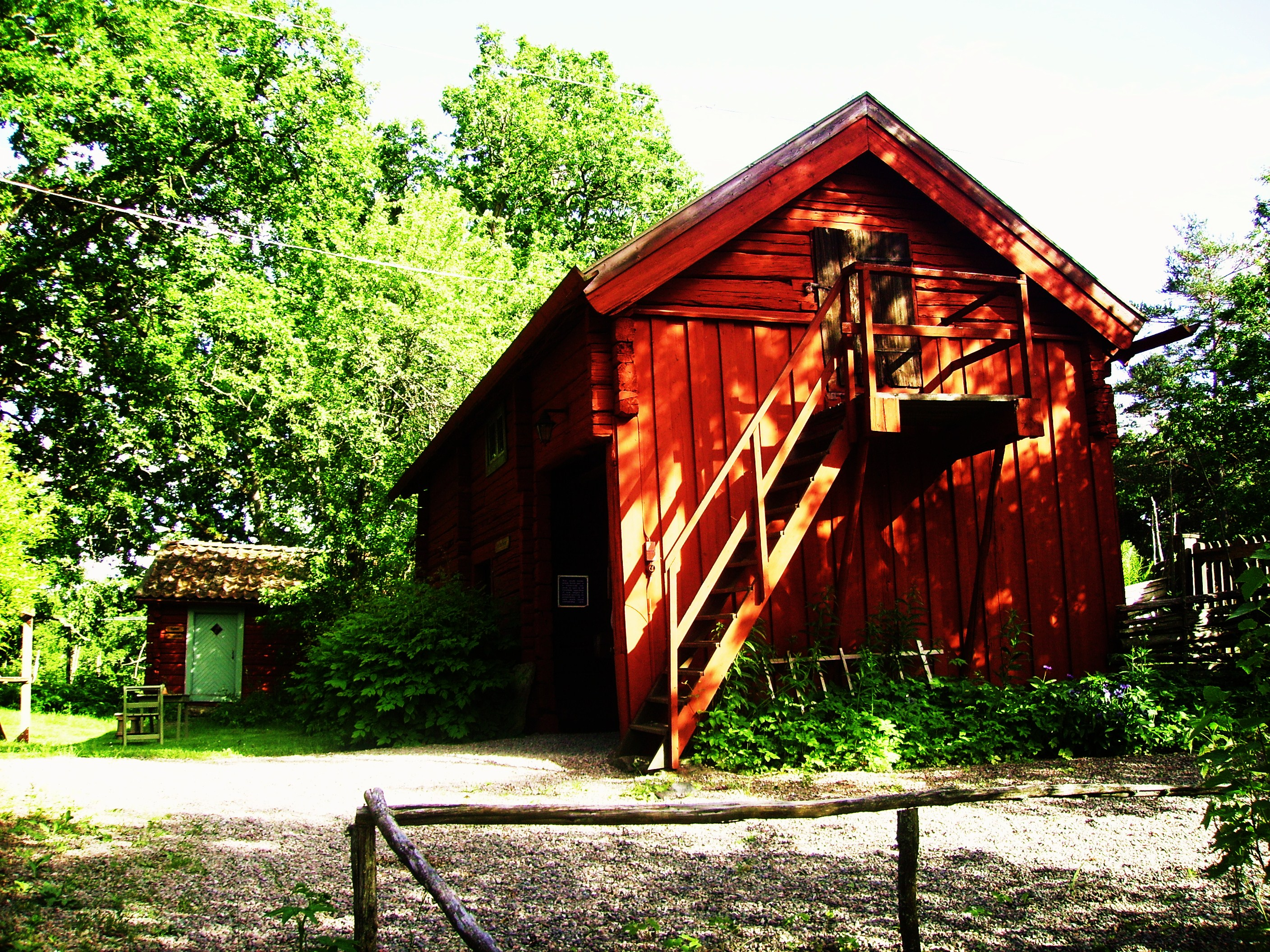 Picture of Björnlunda hembygdsgård in Södermanland